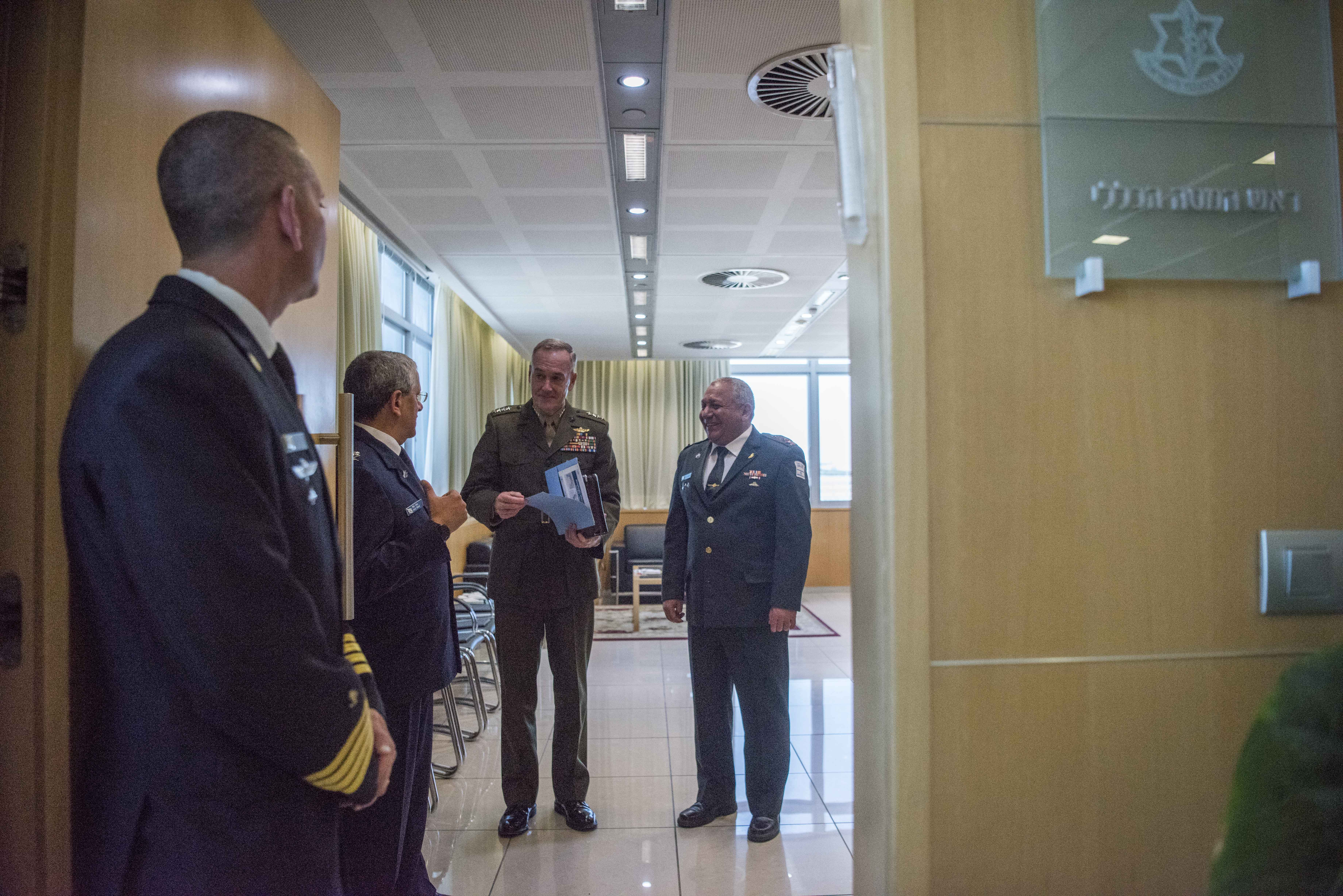 Marine Corps Gen. Joseph F. Dunford Jr., chairman of the Joint Chiefs of Staff, meets with Lt. Gen. Gadi Eisenkot, Chief of General Staff, at Israel Defense Force Headquarters in Tel Aviv, Israel May 9, 2017. (Dept. of Defense photo by Navy Petty Officer 2nd Class Dominique A. Pineiro/Released)